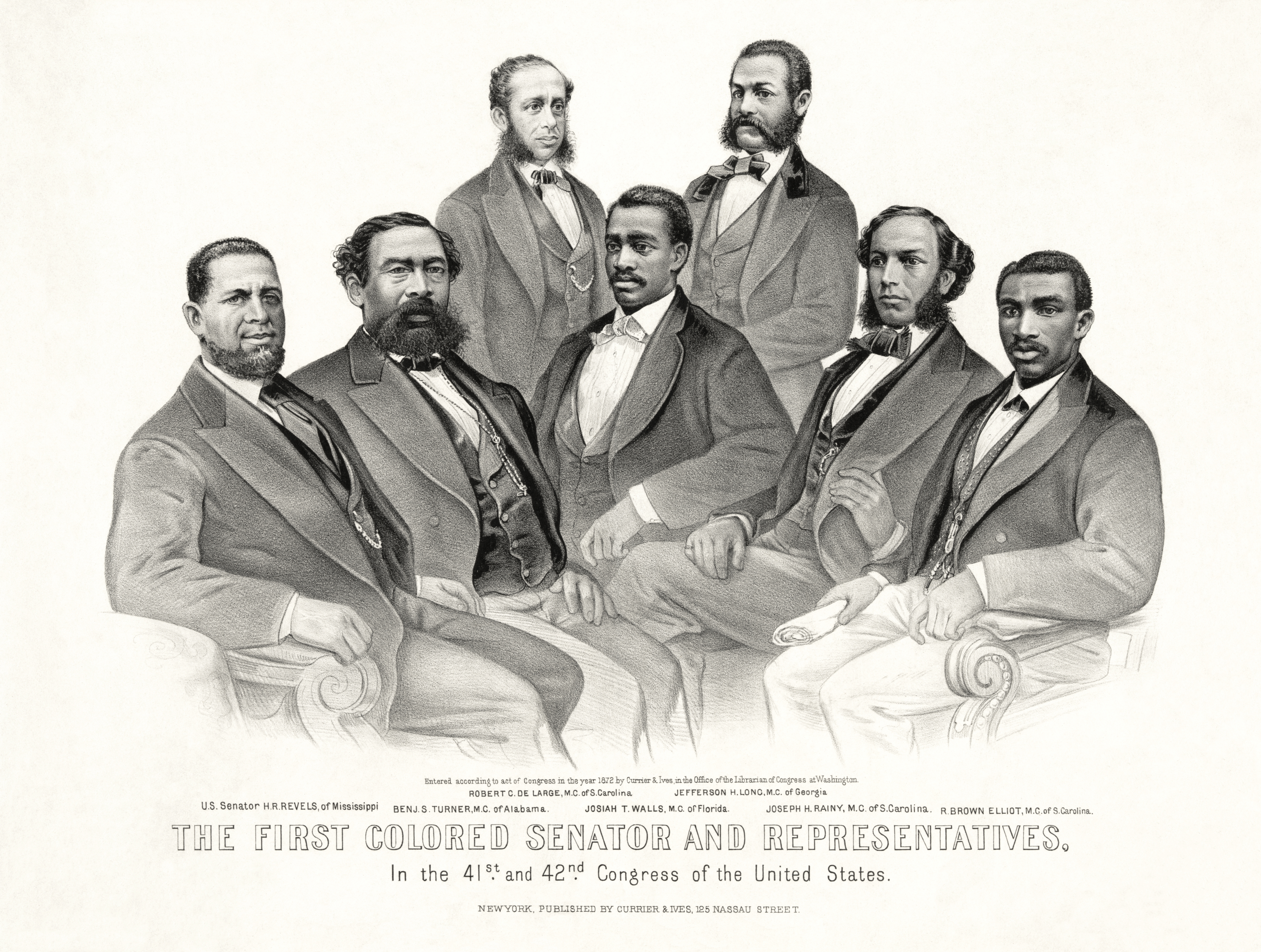 "First Colored Senator and Representatives in the 41st and 42nd Congress of the United States." (Left to right) Senator Hiram Revels of Mississippi, Representatives Benjamin Turner of Alabama, Robert DeLarge of South Carolina, Josiah Walls of Florida, Jefferson Long of Georgia, Joseph Rainey and Robert B. Elliot of South Carolina.